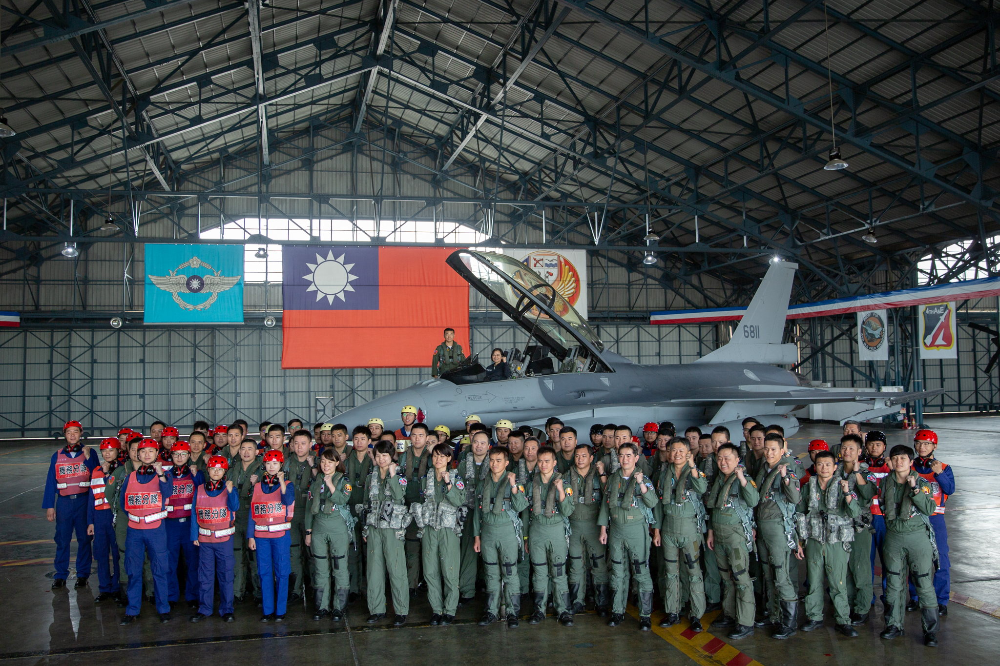 Official Photo by Wang Yu Ching / Office of the President